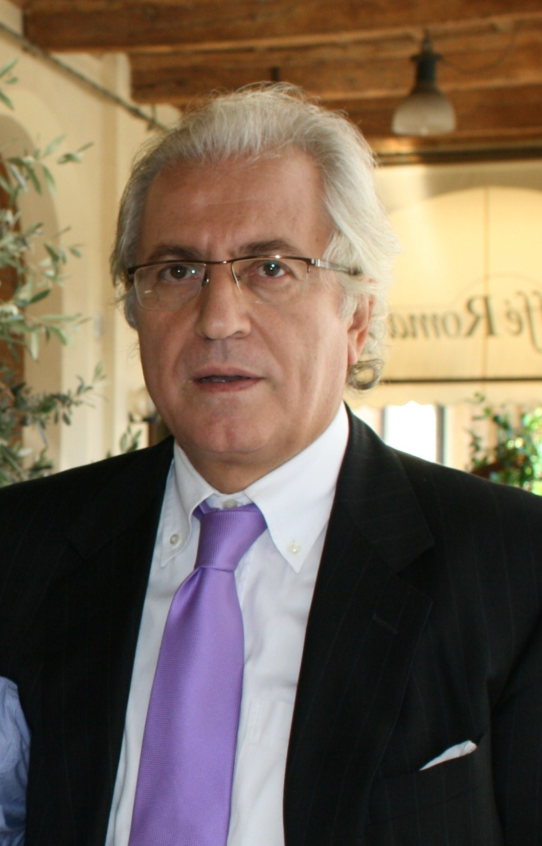 Photo Enrico Pirondini italian reporter